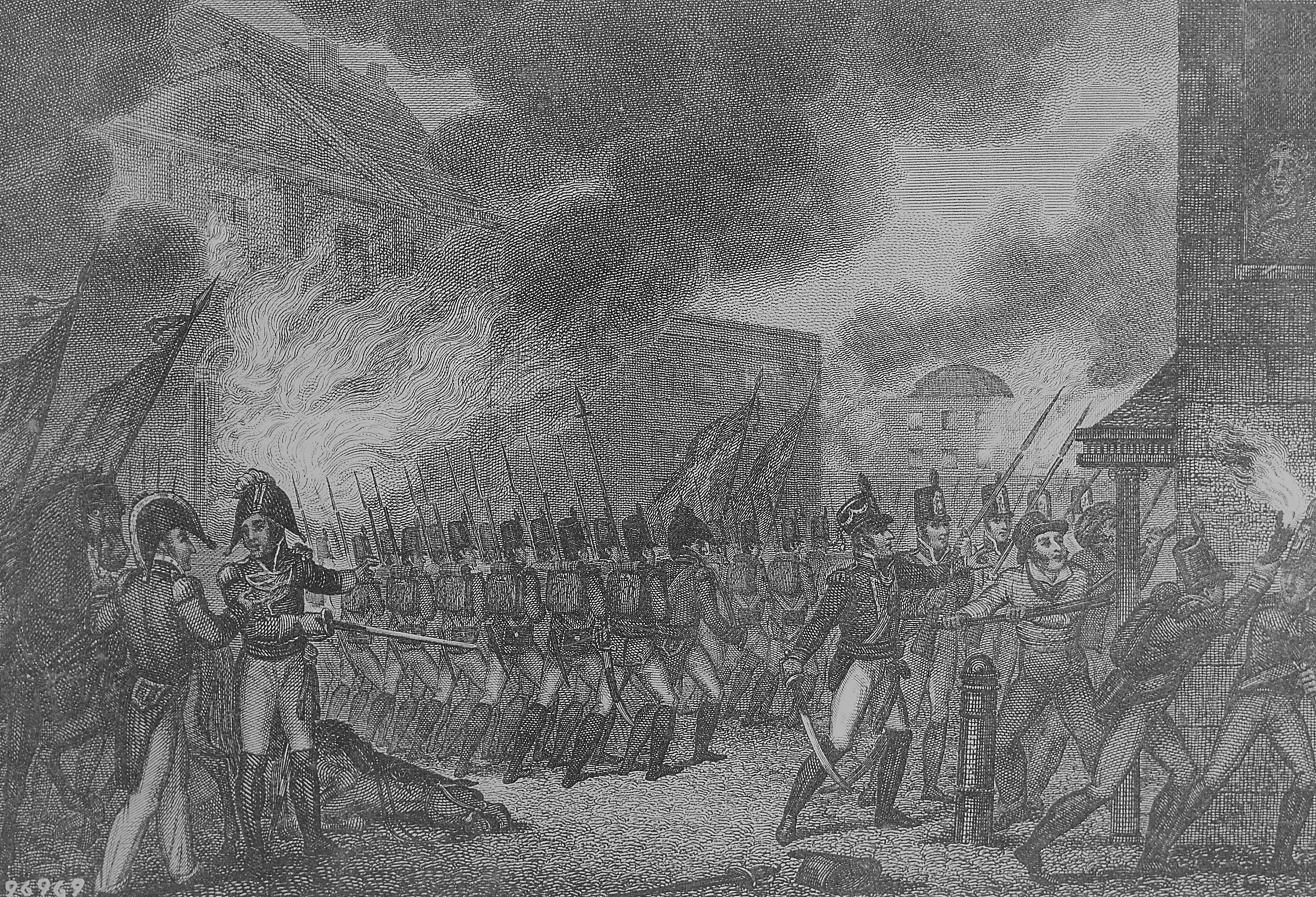 Scope and content: Engraving from The History of England by Paul de Rapin -Thoyras.